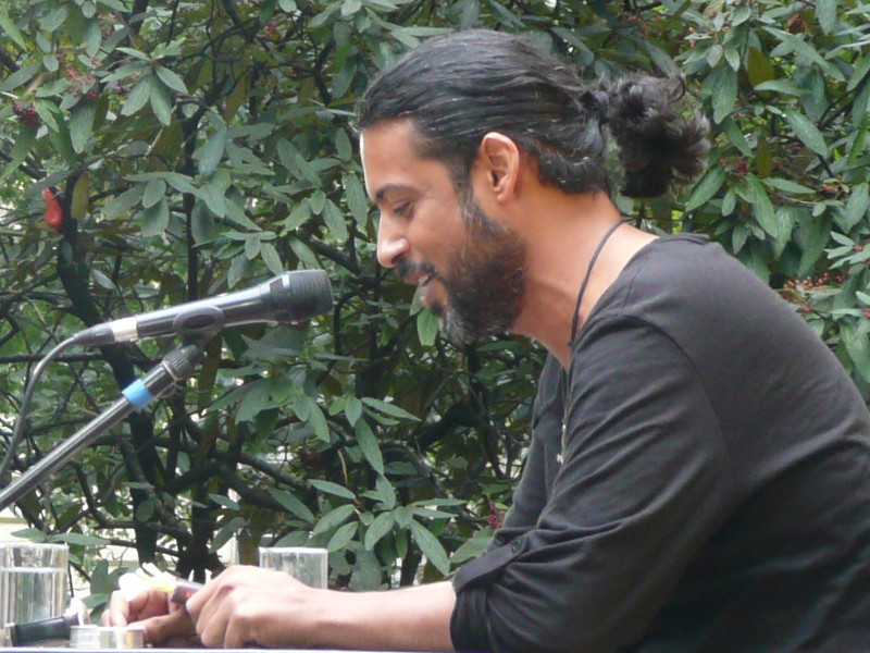 German-iraqui author Abbas Khider reading at the Erlanger Poetenfest 2011